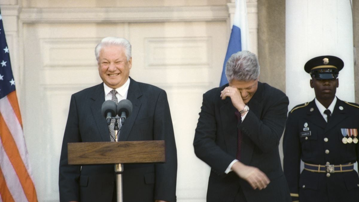 WASHINGTON. At a press conference with American President Bill Clinton.